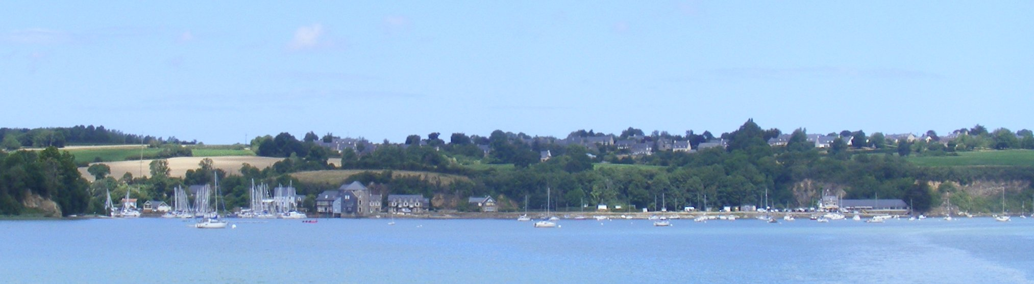 Panorama of "La cale des moulins". It is part of the village Plouer-sur-Rance, France (Brittany). This locality is formed by a road along the estuary of the Rance ending on a slipway. In the middle, the marina and an old water mill renovated residence. The photo is taken from a boat.